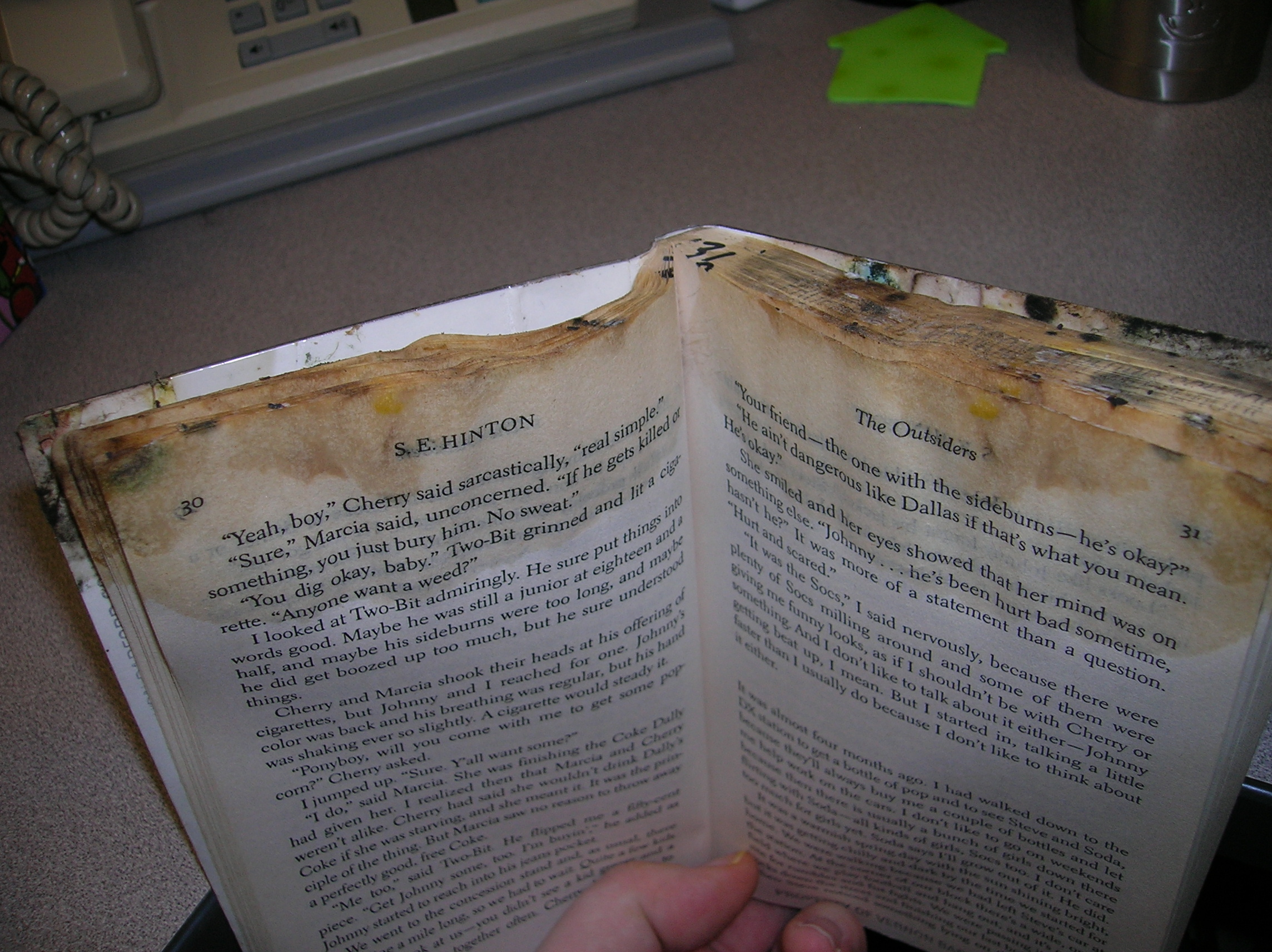 The Flickr user's describes an incident of leaving a banana stained book in their backpack and leaving it for a couple weeks with this result.